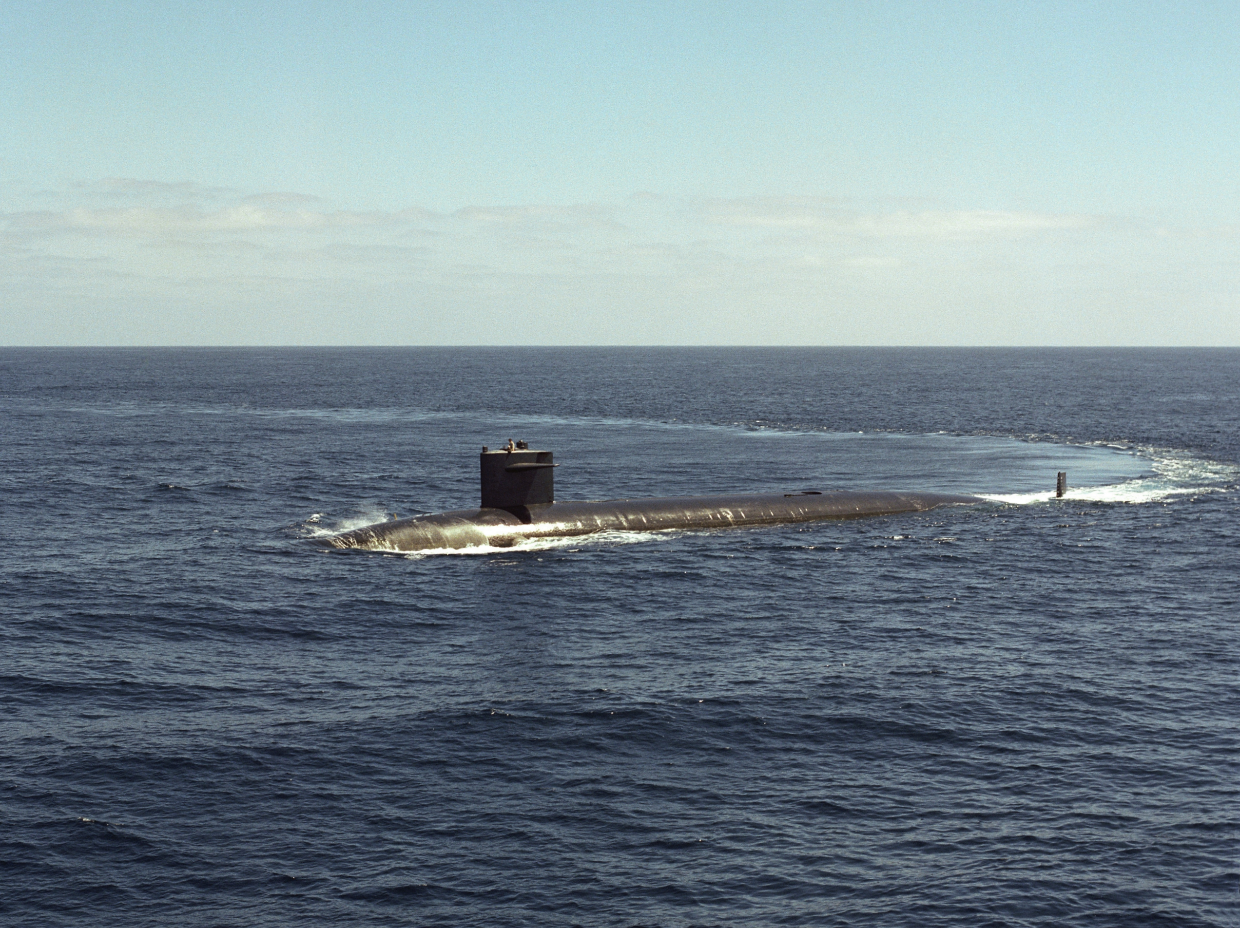 A starboard bow view of the nuclear-powered attack submarine USS PLUNGER (SSN 595) underway off the Southern California coast.